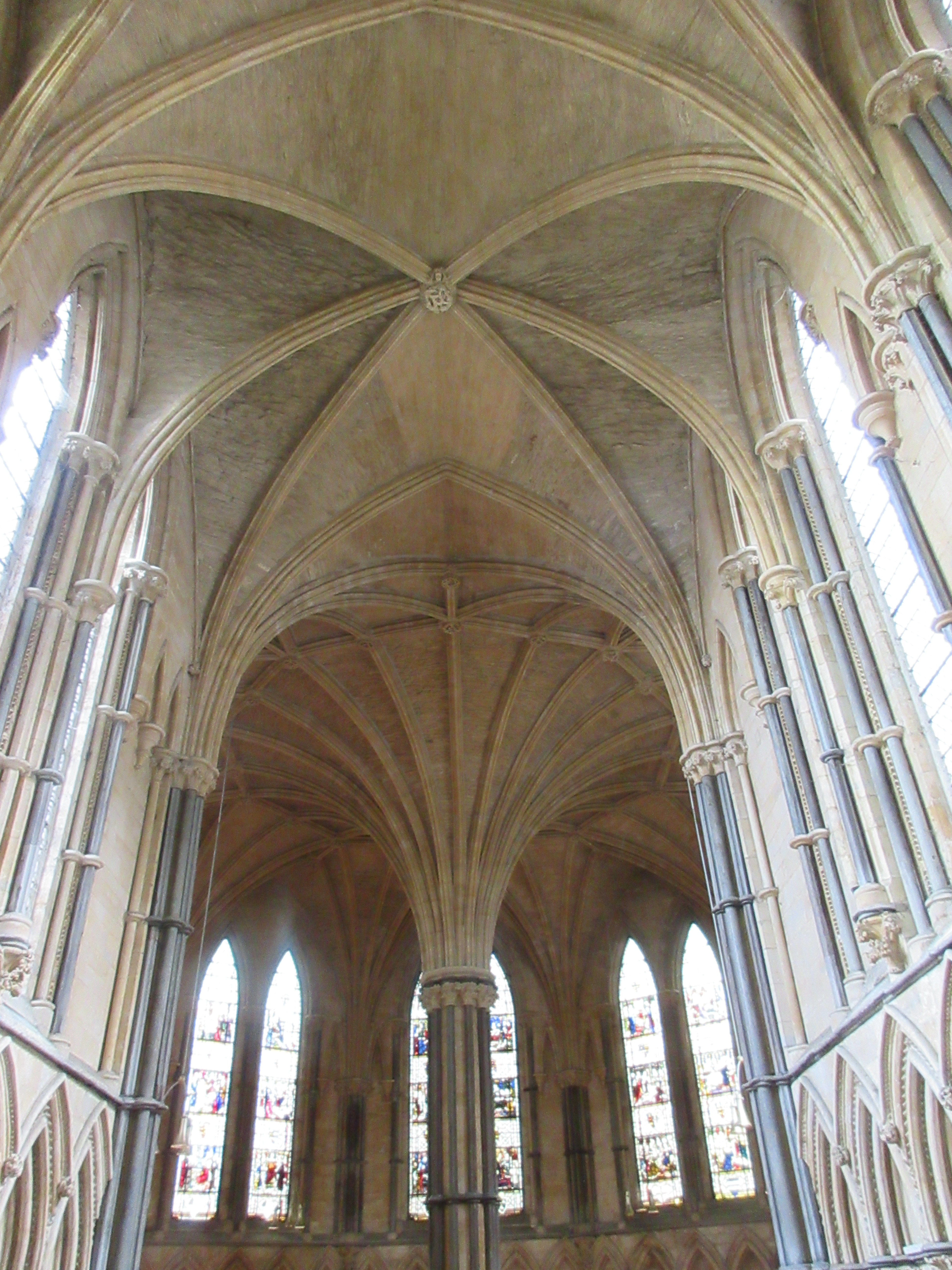 Chapter House